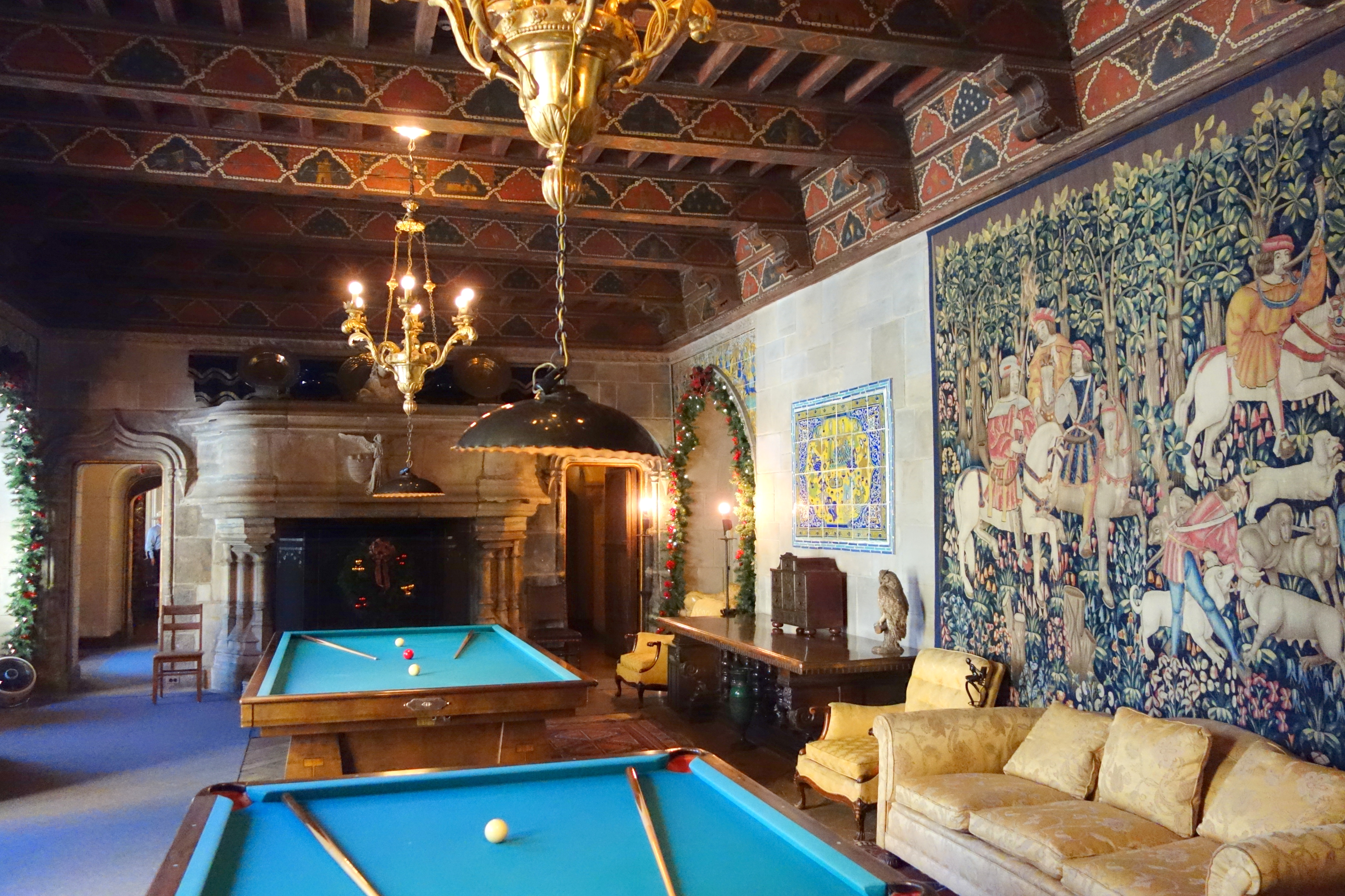 Interior view of Hearst Castle, San Simeon, California, USA. Photograph was permitted without restriction in and around the castle. All artwork is old enough so that it is in the public domain.